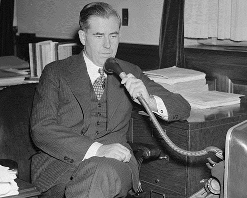 Agriculture Secretary prepares speeches with use of dictaphone. Washington, D.C., Sept. 20. Secretary of Agriculture Henry A. Wallace dispenses with the services of a stenographer and instead uses a dictaphone when preparing his speeches. In fact, he seldom uses a stenographer even when dictating [...] picture was made today, 9/20/37